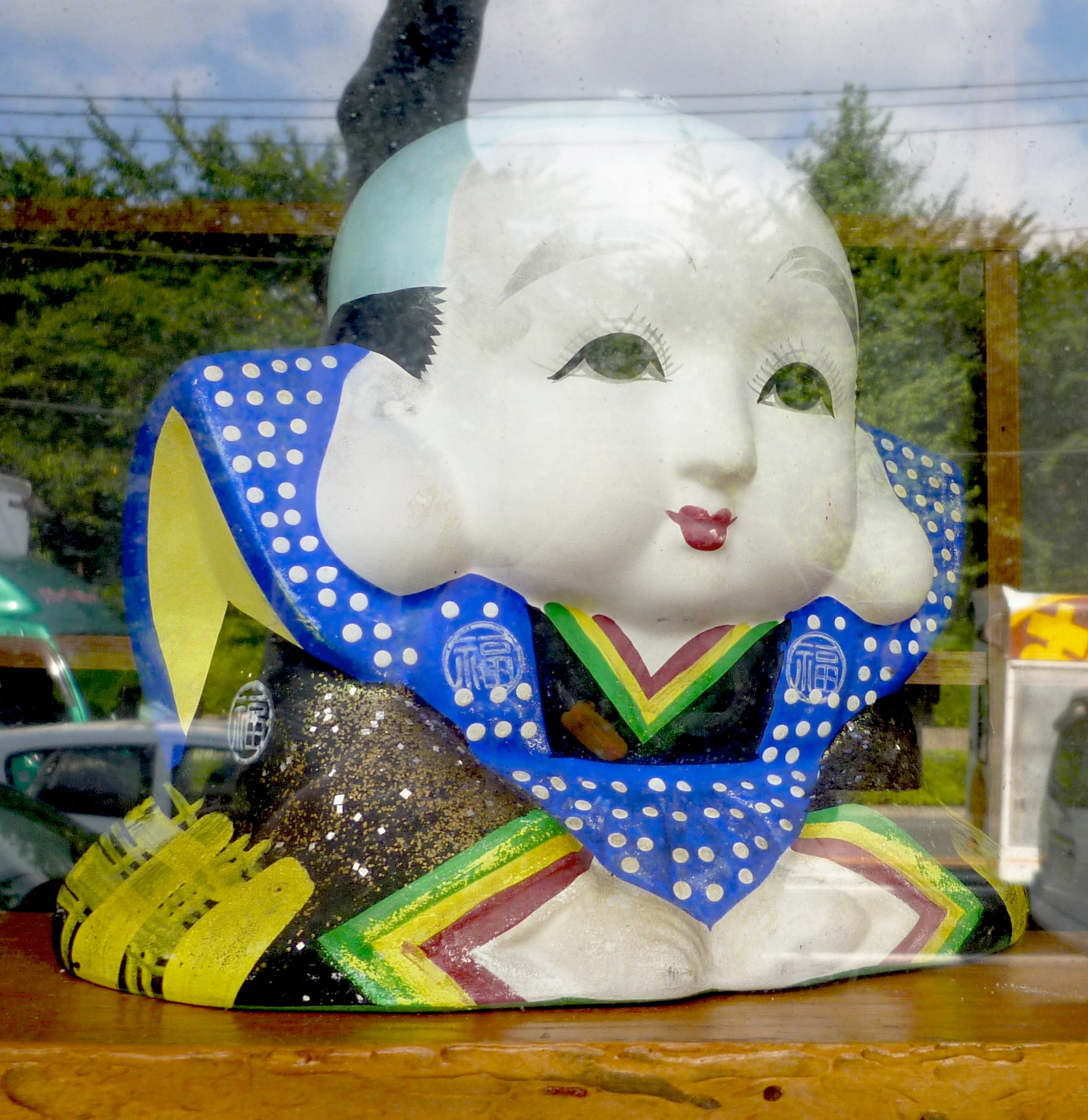 Fukusuke (福助) are traditional china dolls associated with good luck in Japan. This one was near Oji station (王子駅) and is seen through a window.